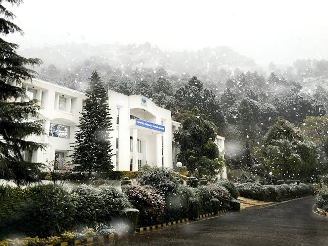 Frontier Medical College in winters during snowfall